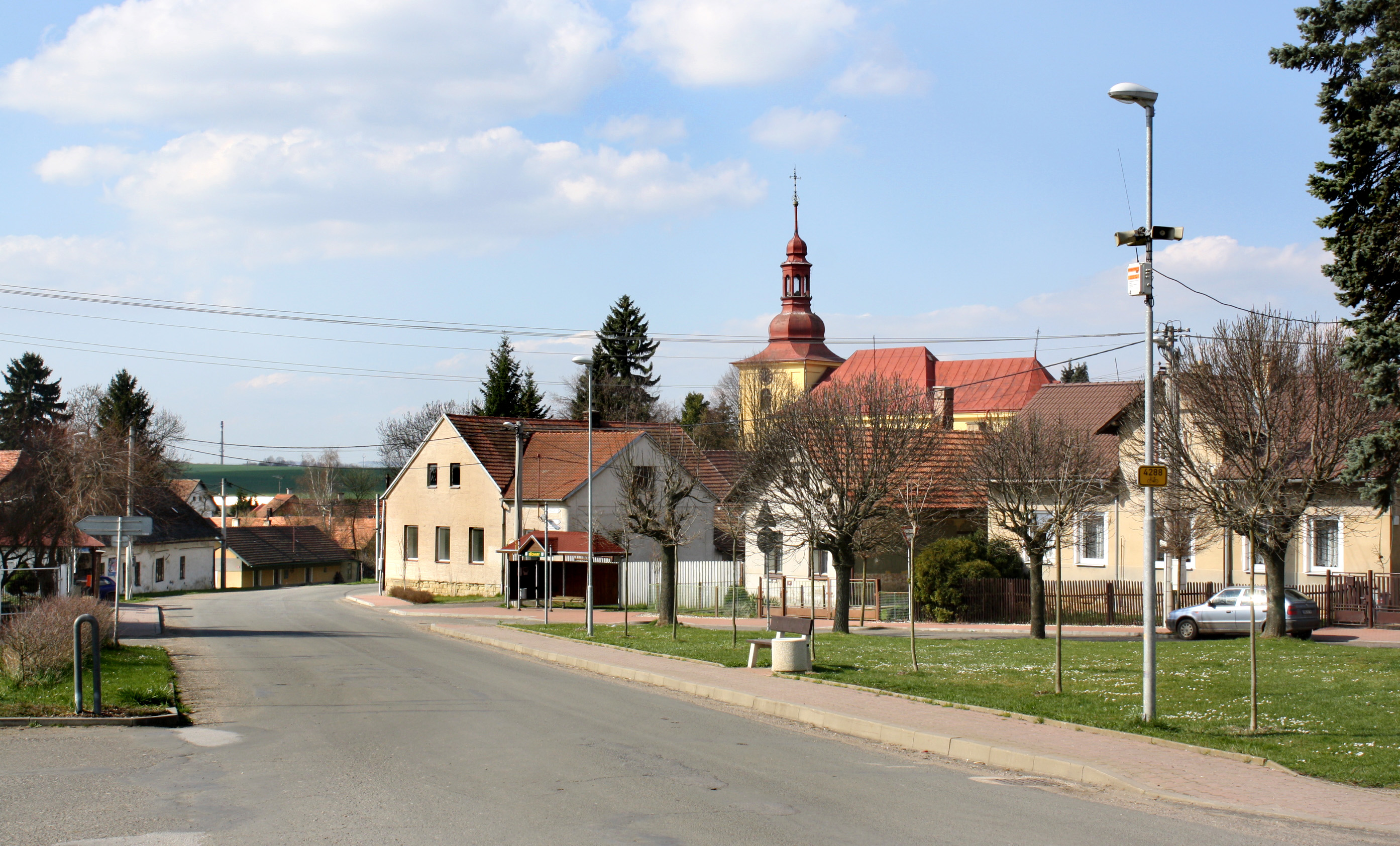 Village square in Běchary village, Czech Republic